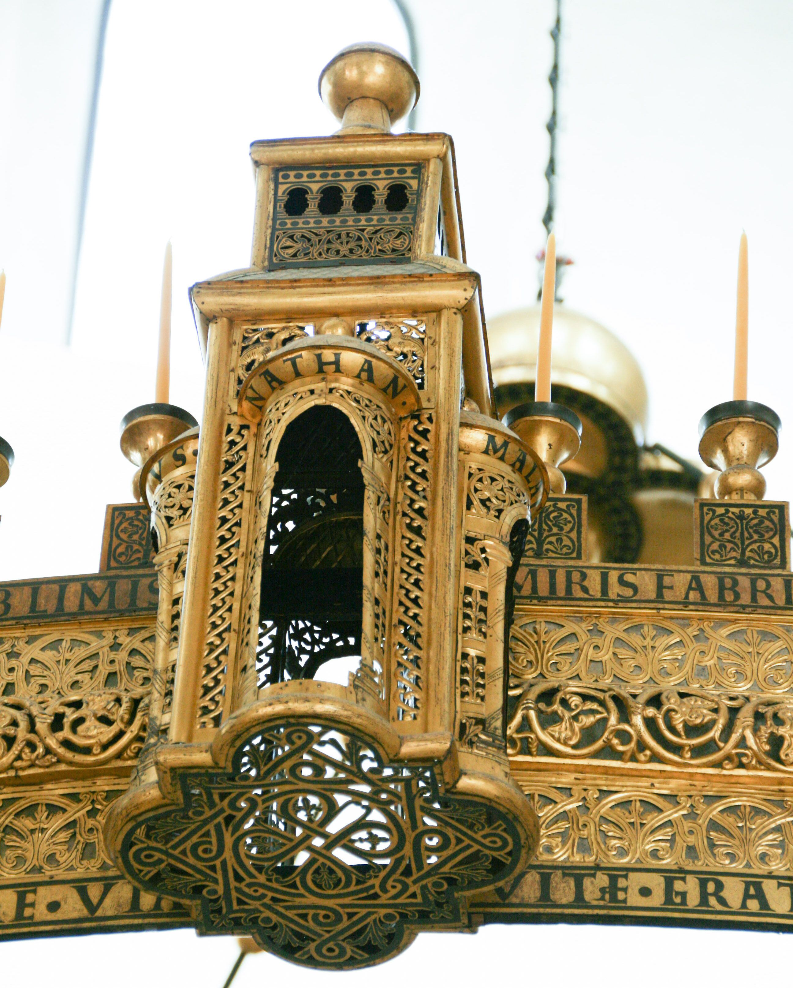 Detail of the Hezilo chandelier.